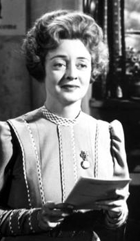 Cropped publicity still of Bette Davis in the 1945 film The Corn is Green. Such images were taken by a studio photographer, and then disseminated to the media and the public to promote the film (see Film still). This is definitely a publicity still due to the high quality of the image.